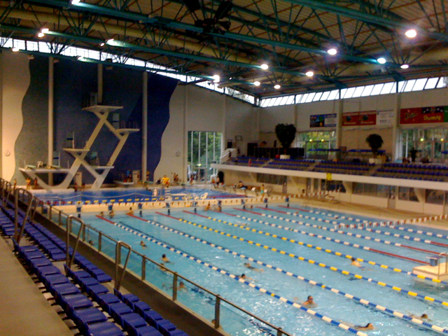 Indoor view of Mäkelänrinne Swimming Centre in Helsinki, Finland.